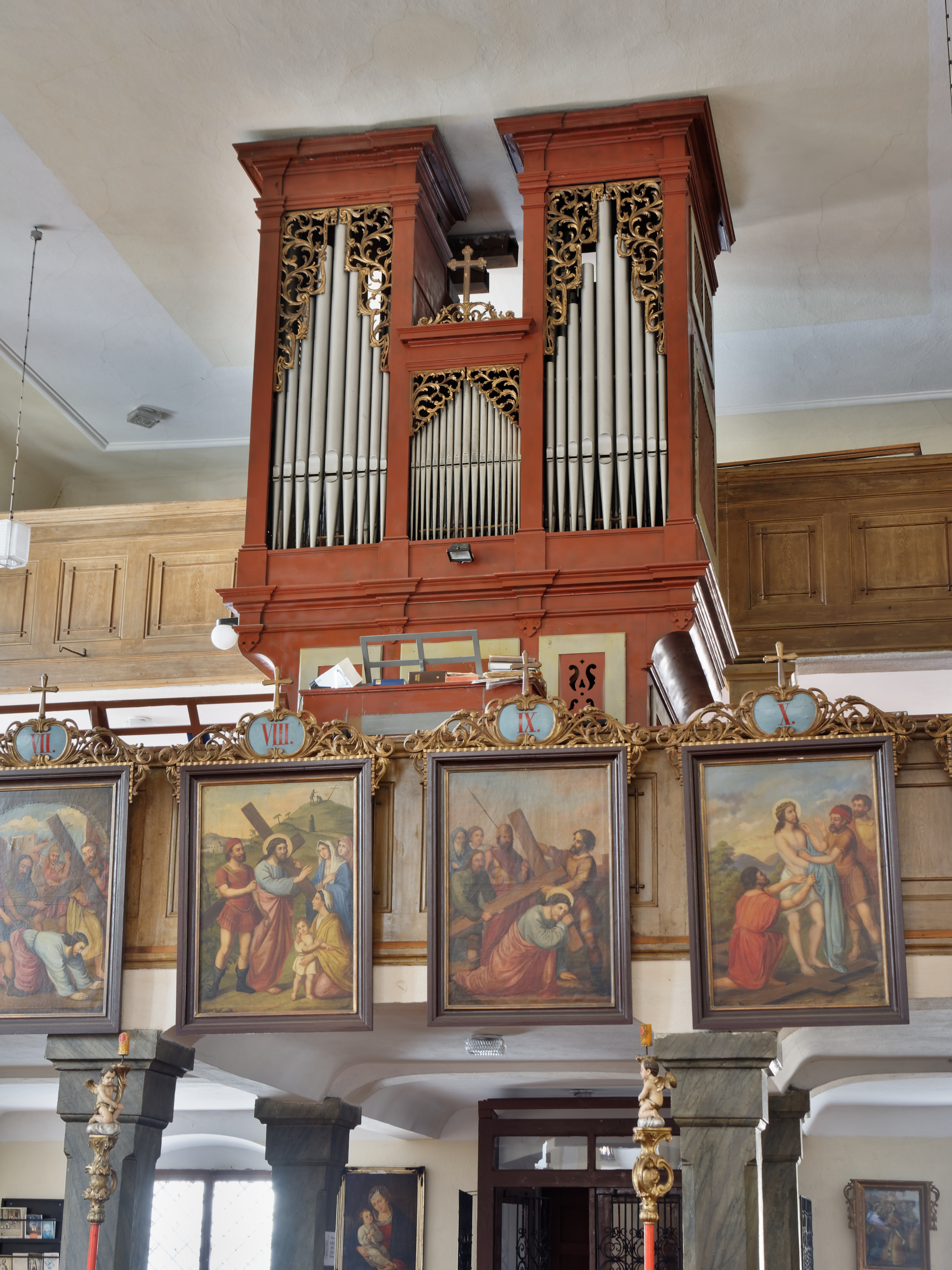 Church of St. Catherine, Volary, Prachatice disctrict